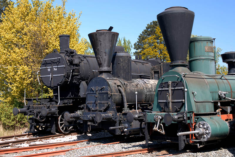 Train Museum Strasshof - 58.744, 153.7114, FUTSCH